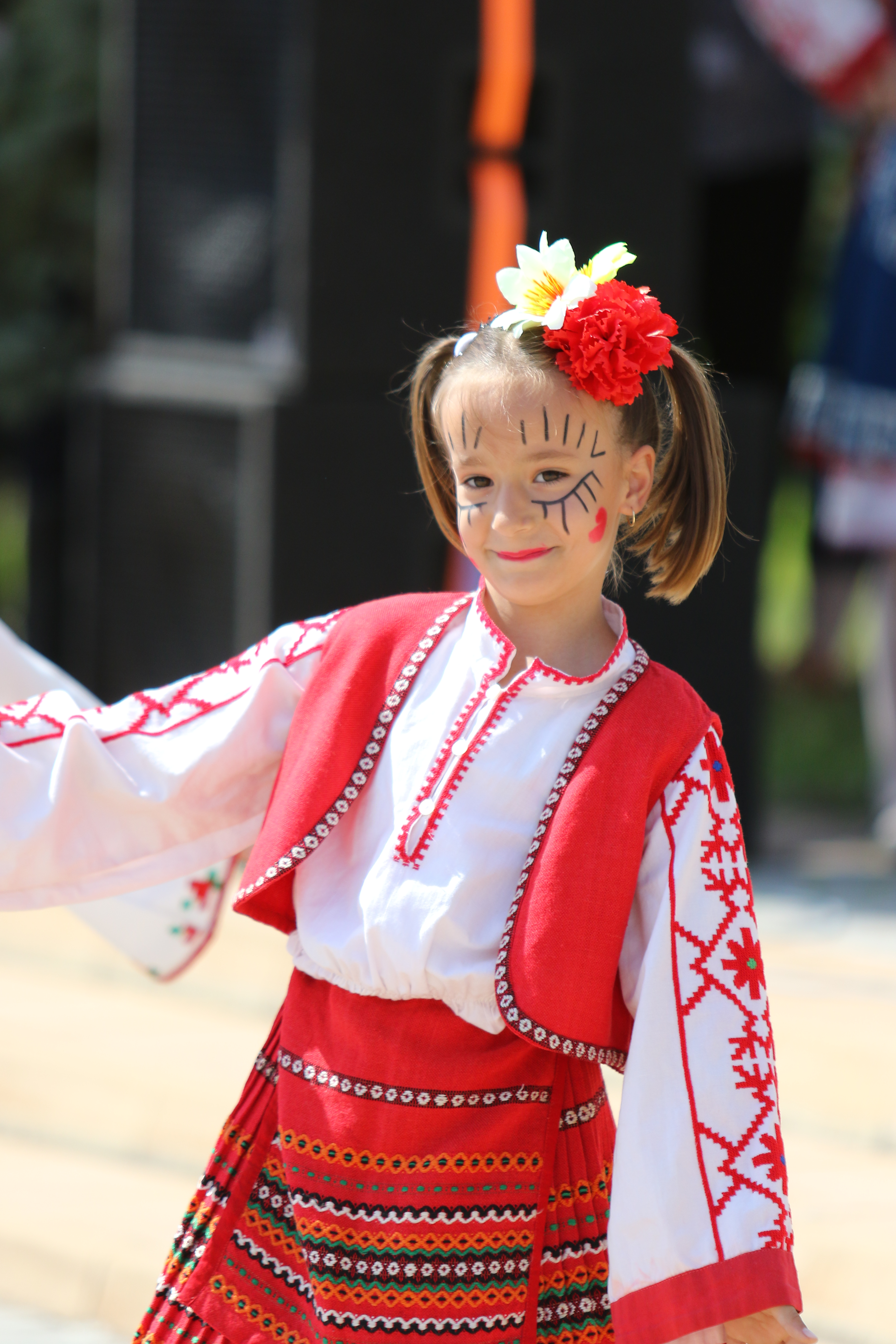 Children from Bulgaria perform folk dance This photo has been taken in the country: Bulgaria